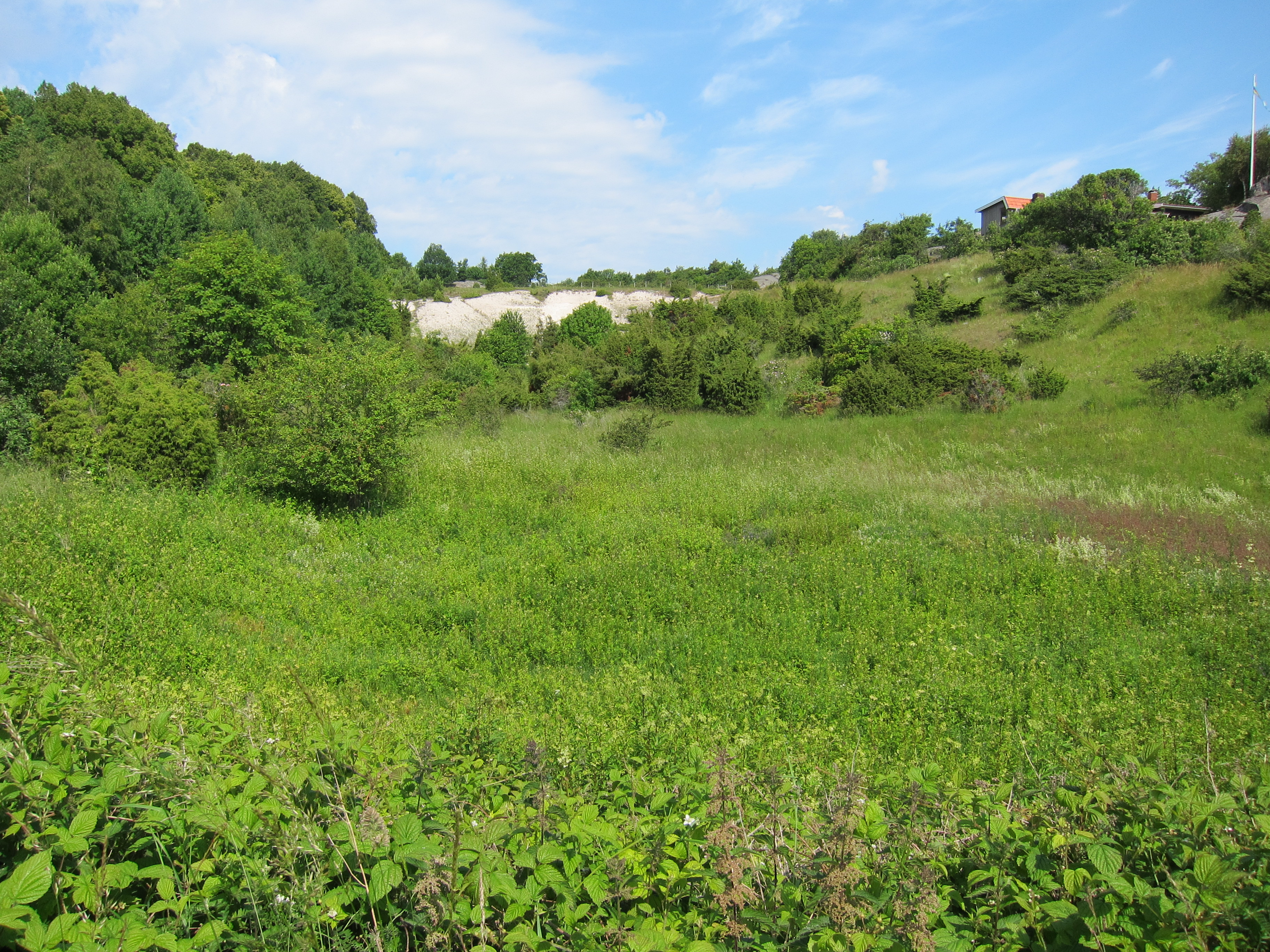 OPen mine on the island of otterö, sweden.